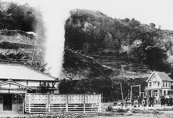 Mine Onsen in Ealry Showa era